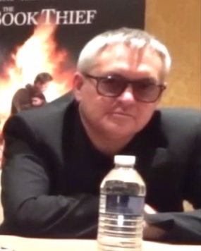 The Book Thief film interview with Director Brian Percival. Video Shot & Edited By Gadi Elkon for .